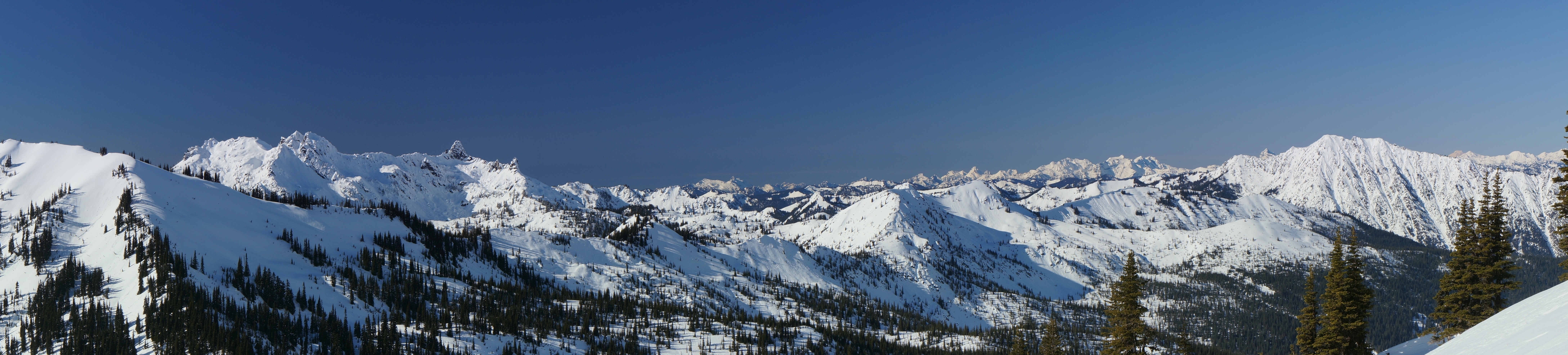 Wide panorama with Frosty Peak, Bulls Tooth, Doughgob, to Jim Hill Mtn.